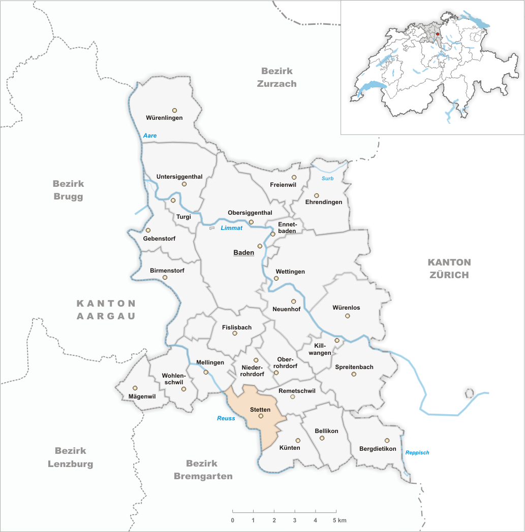 Municipality Stetten